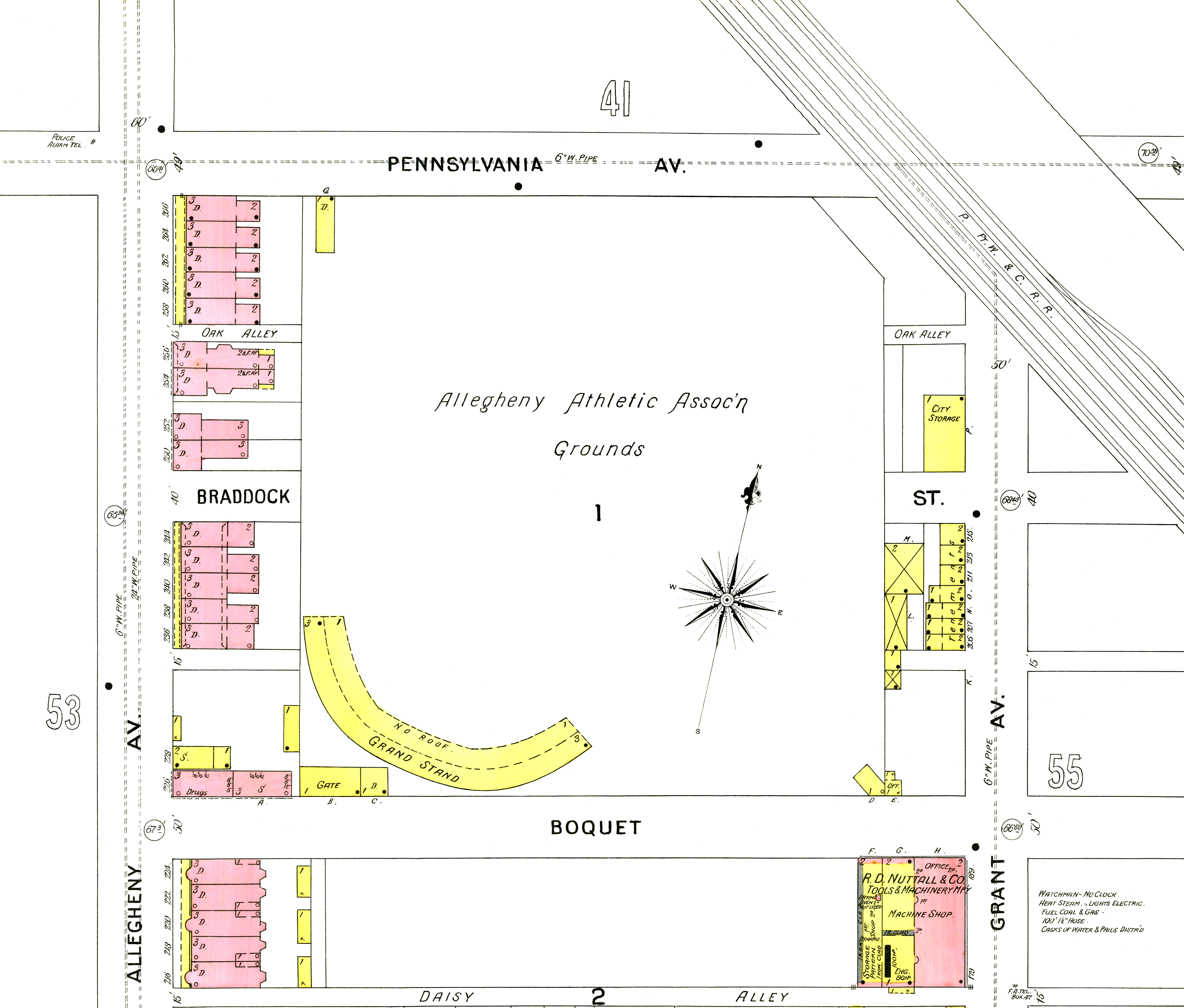 Recreation Park ("Allegheny Athletic Assoc'n Grounds") on 1893 Sanborn map of Allegheny, Pennsylvania. "Grant Av." is present-day Galveston Avenue; "Boquet" is now Behan Street. Colors indicate construction material (pink for brick; yellow for wood).